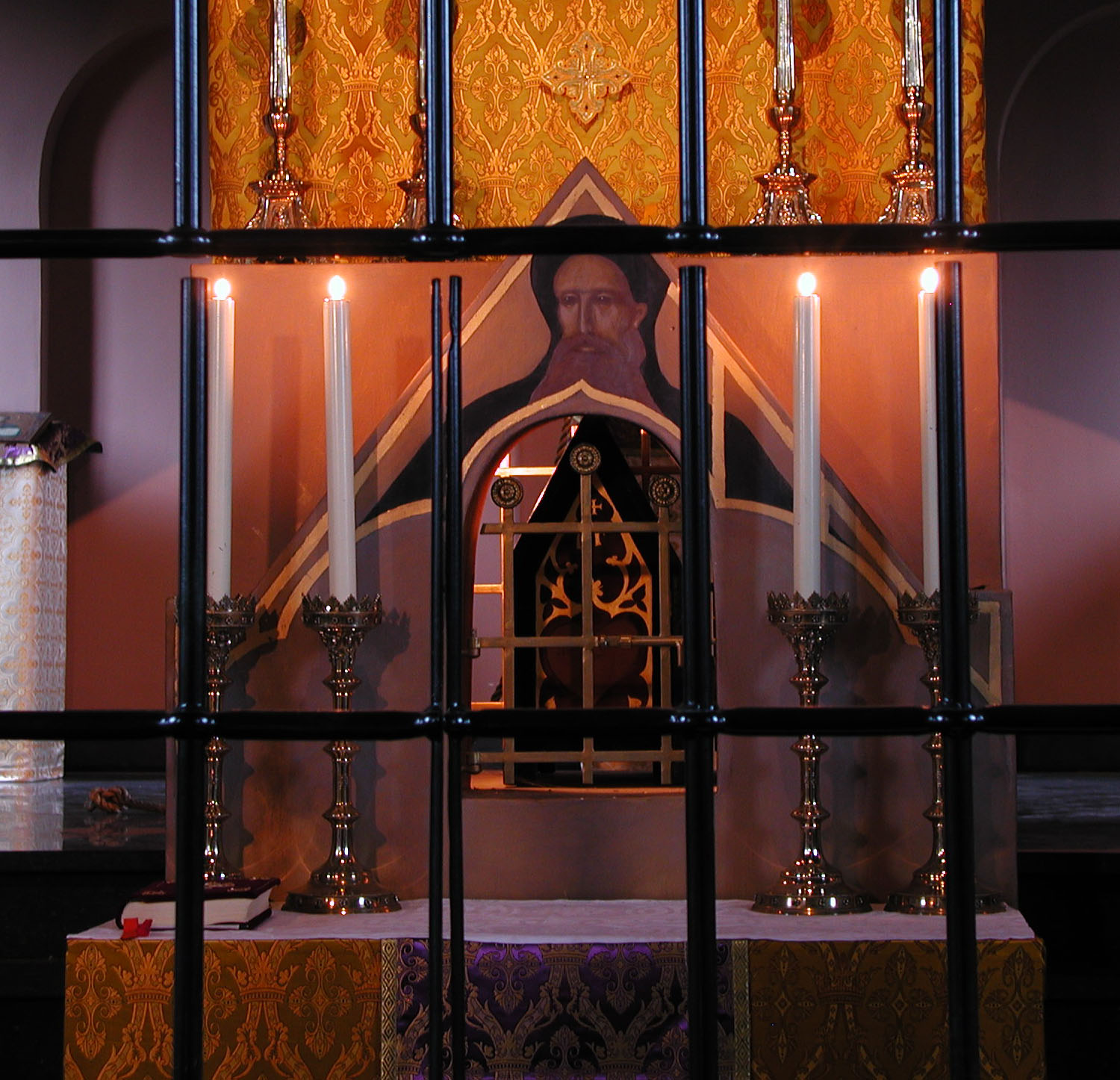 The former main altar of the hermitage church in Warfhuizen in the Netherlands with a mural of Anthony Abbot and a reliquary with some of his relics. Since then they have been moved to a new golden shrine on a side-altar especially made for them.